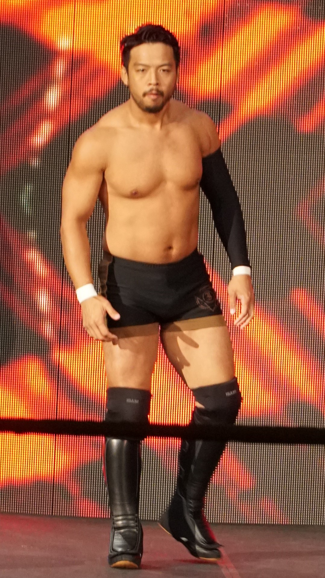 Hideo Itami at WWE Axxess in April 2018